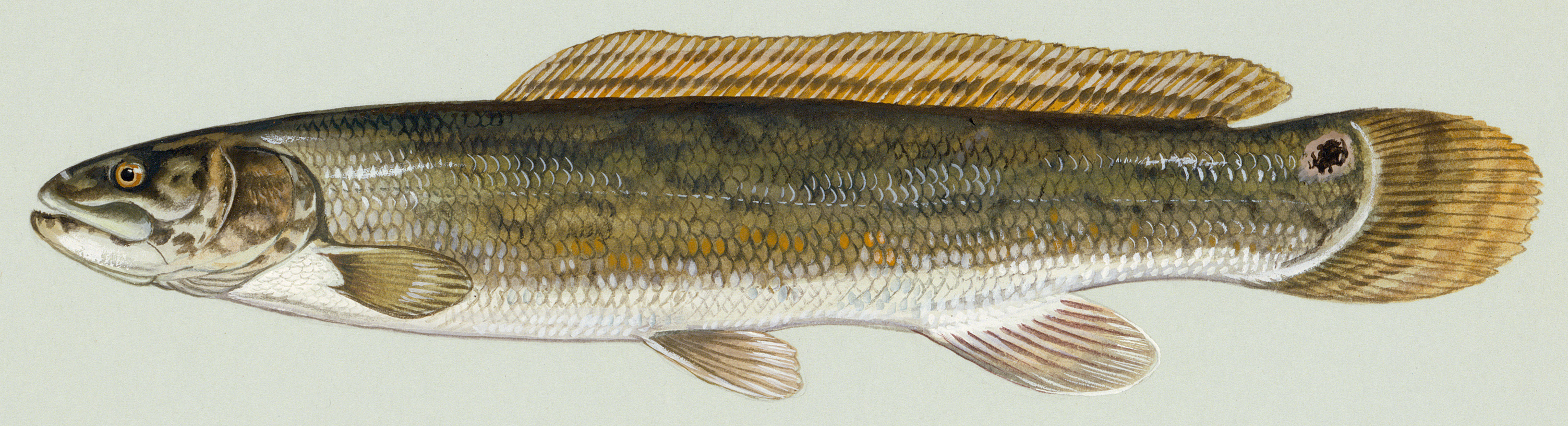 Bowfin (Amia calva)